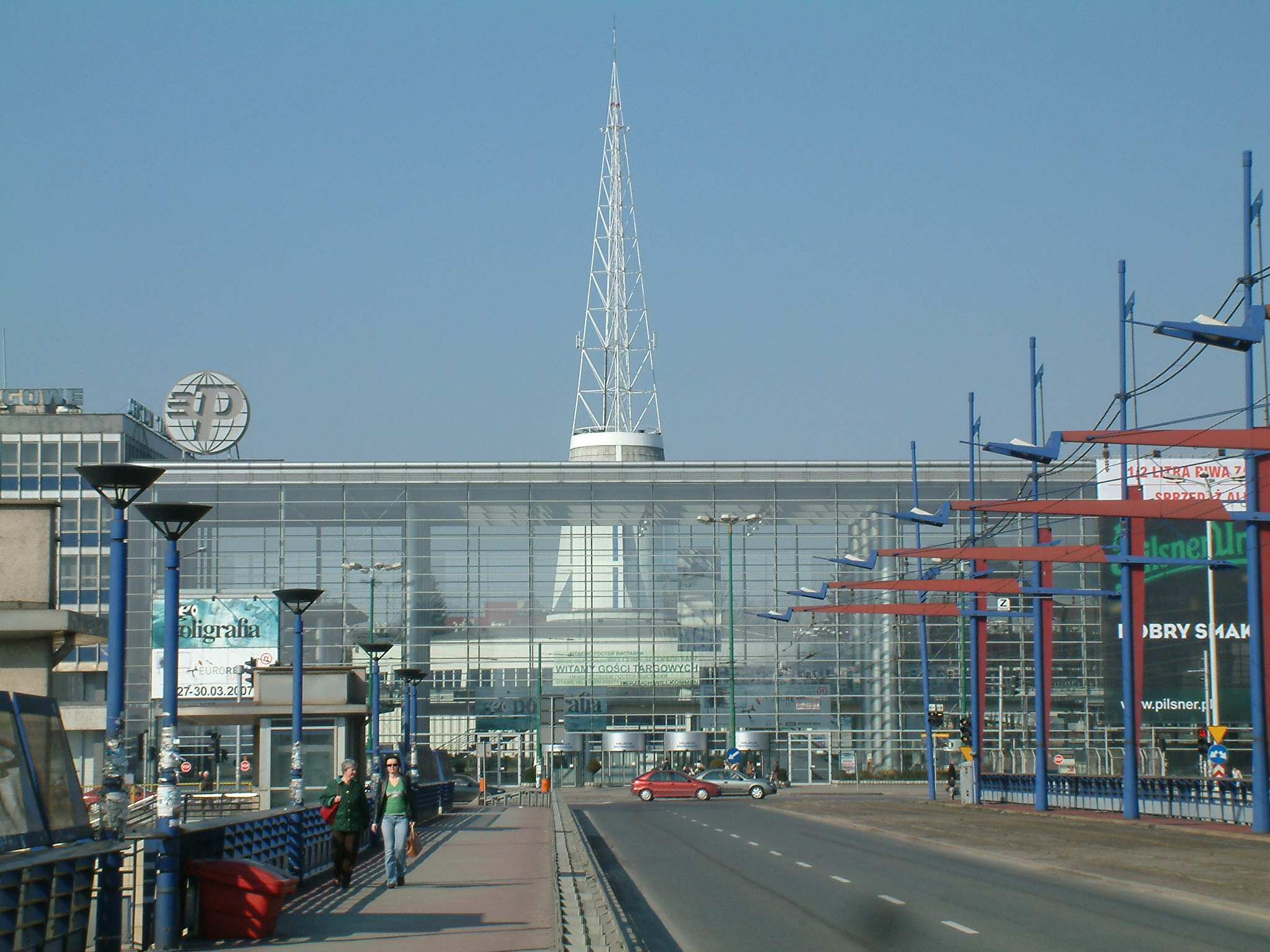 Poznan International Fair - viev from Dworcowy bridge